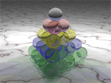 A single frame from :Image:Pyramid of 35 spheres animation.gif